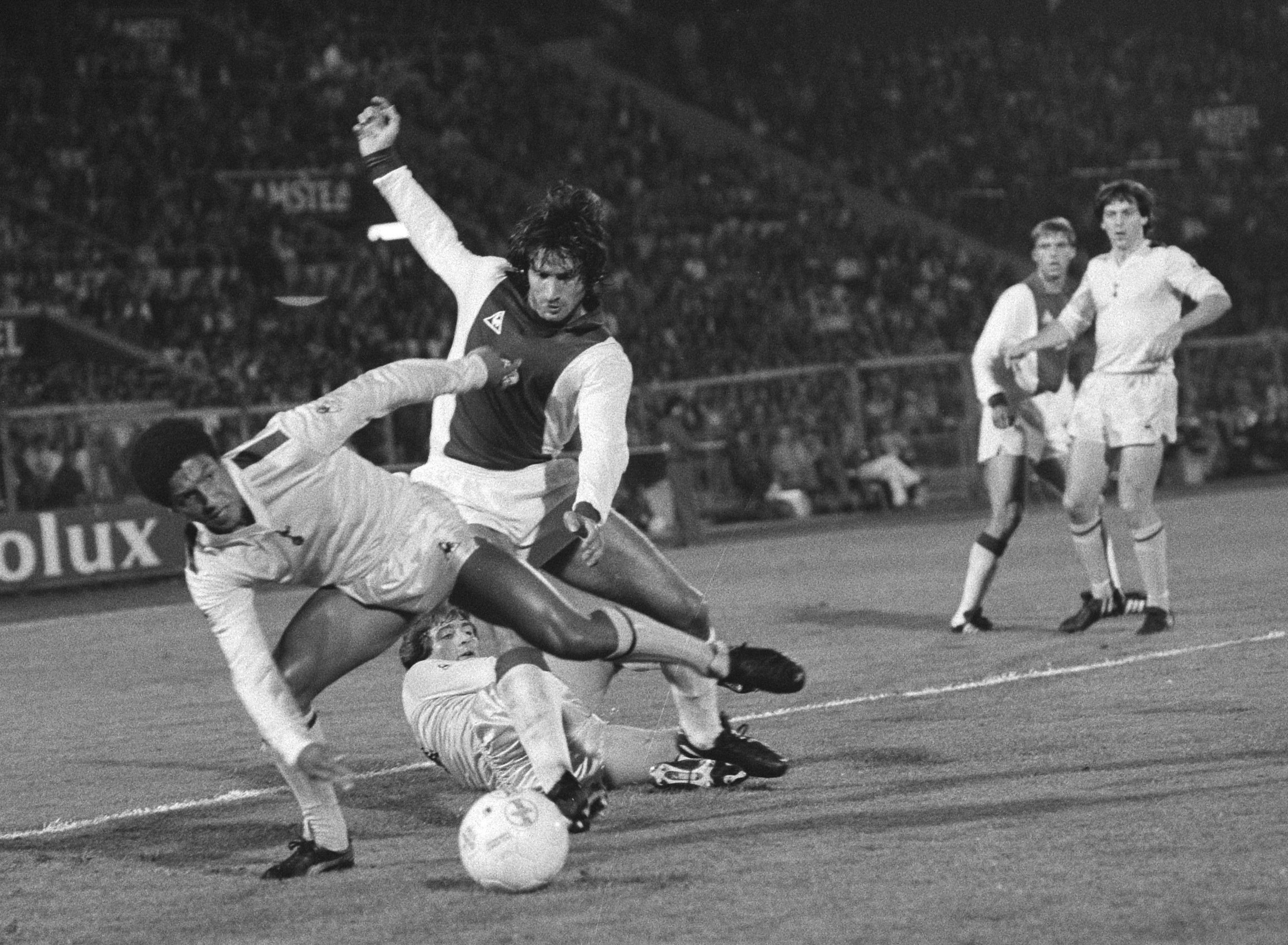 Ajax vs Tottenham Hotspur 1981 European Cup Winners’ Cup first round